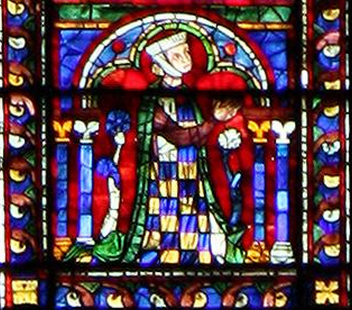 Alix of Thouars - South rose window of Cathédrale Notre-Dame de Chartres with Gothic stained glasses